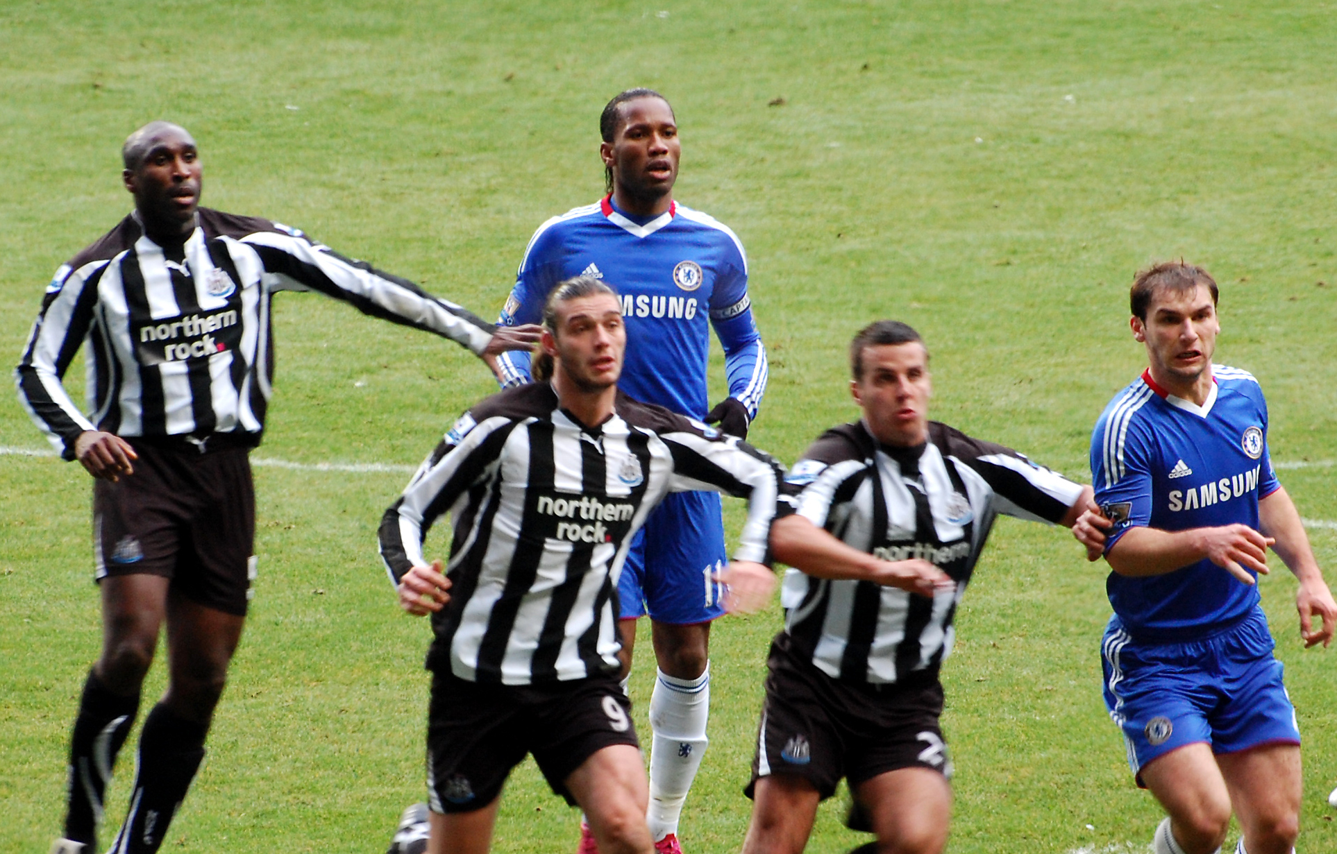 Andy Carroll et al prepare for incoming football